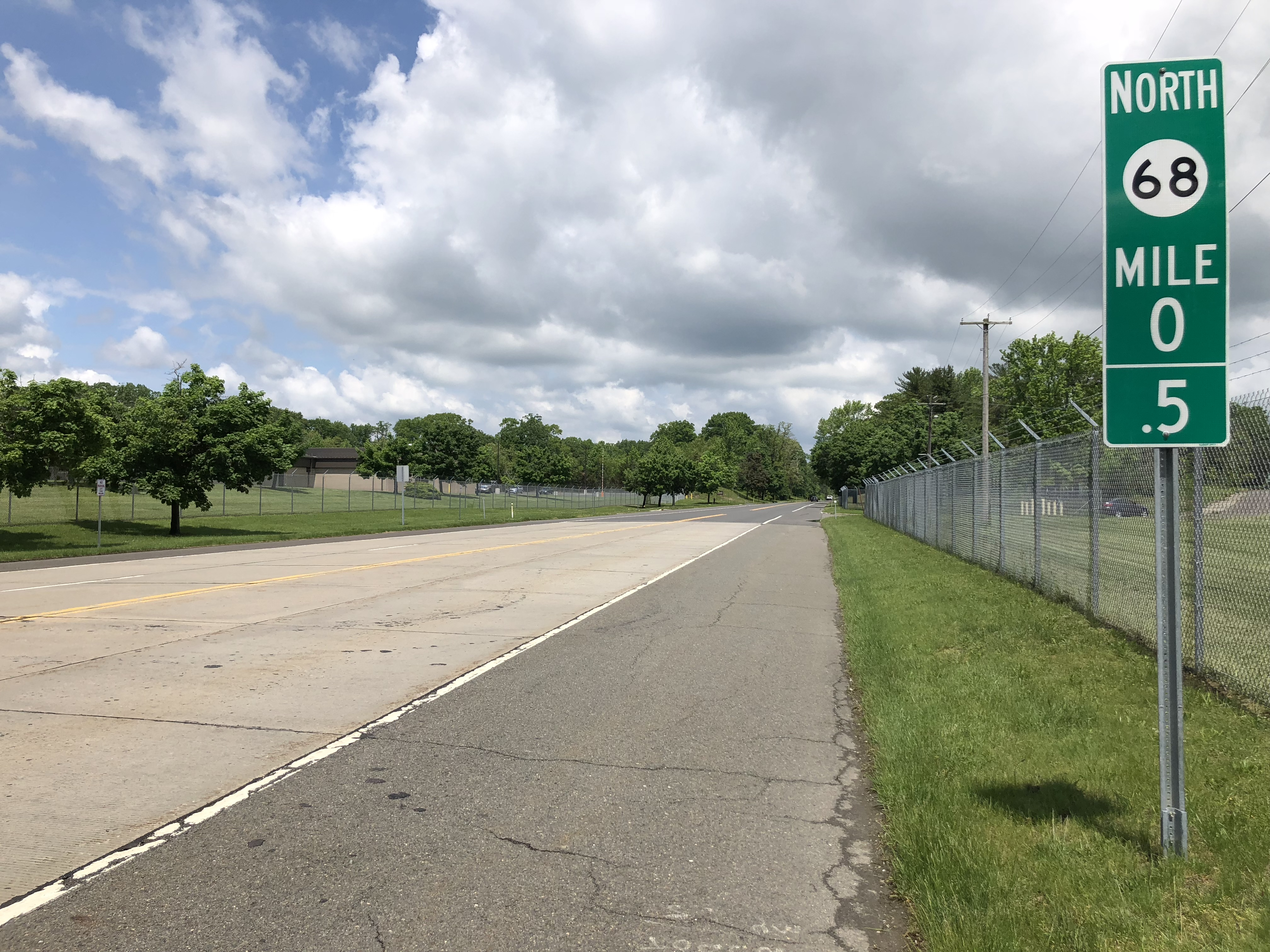 View north along New Jersey State Route 68 between Juliustown Road and Technology Drive in Wrightstown, Burlington County, New Jersey